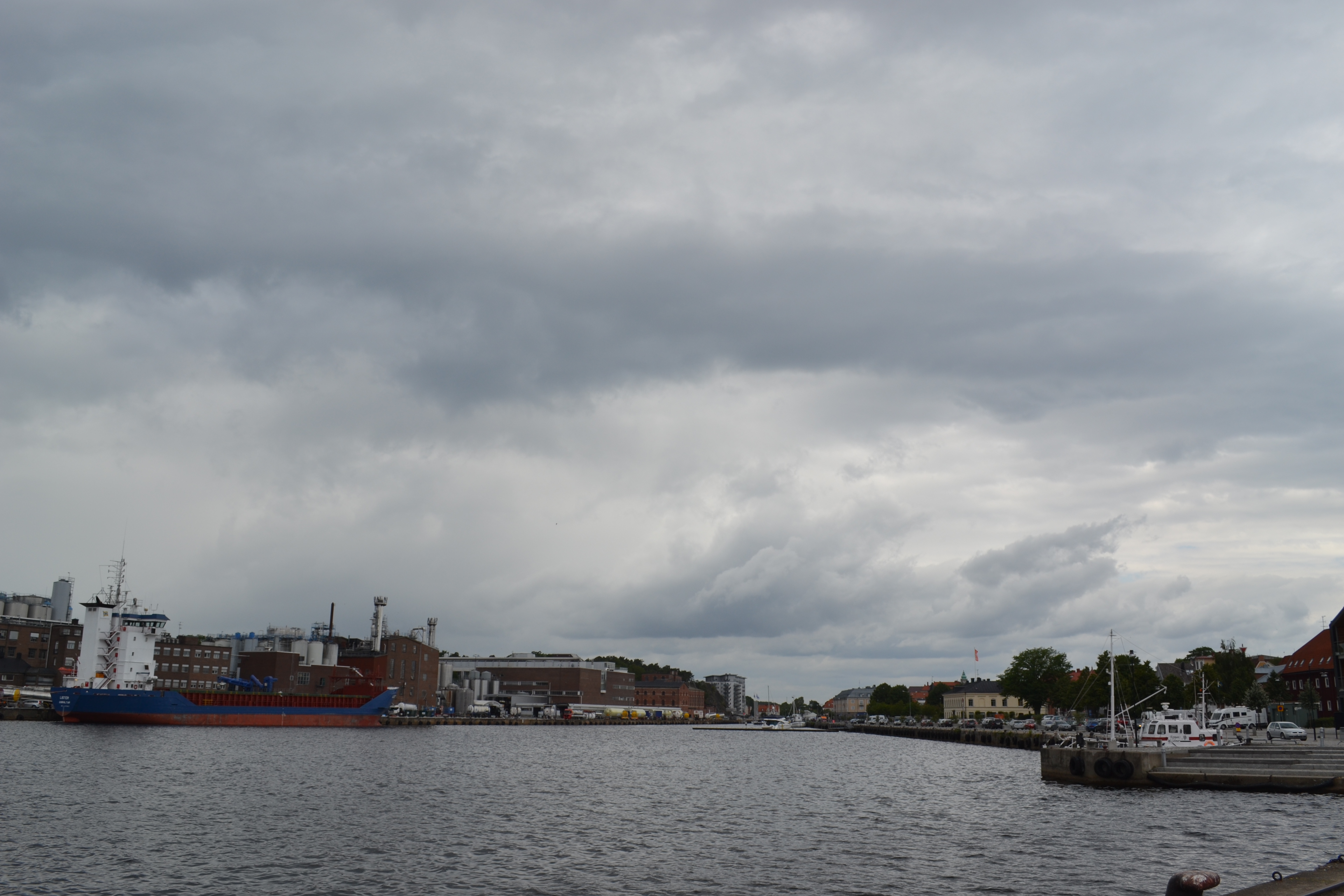 Mieån, Karlshamn, Sweden